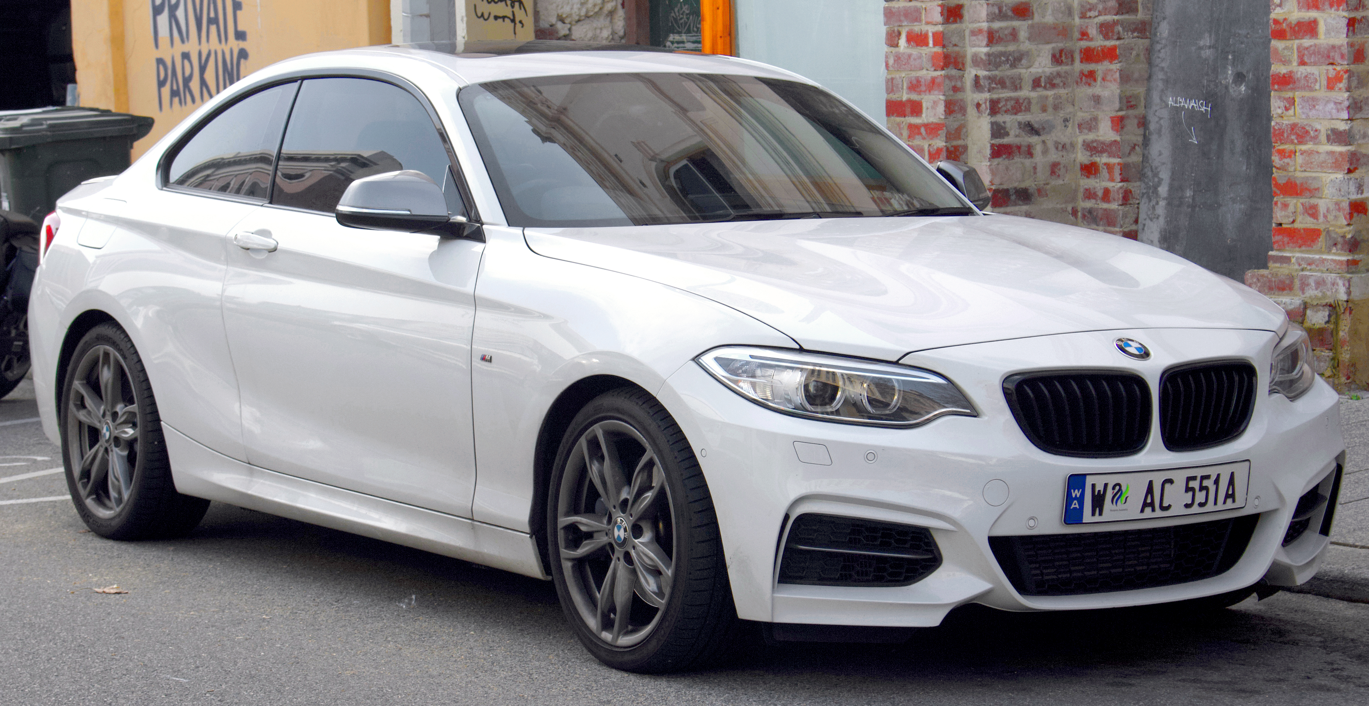 2014-2018 BMW M235i (F22) coupe. Photographed in Fremantle, Western Australia, Australia.